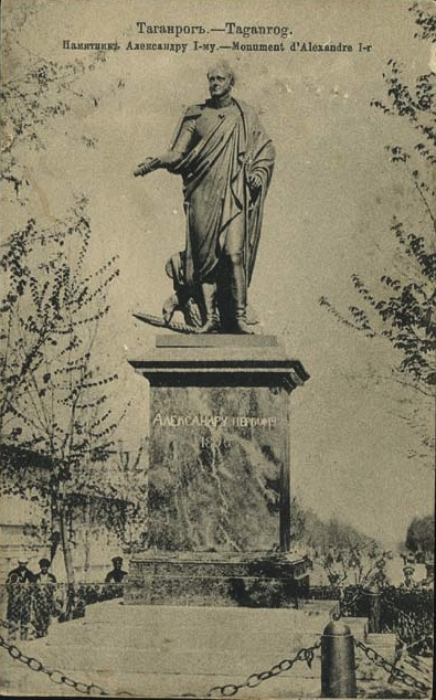 The Alexander I of Russia monument in Taganrog